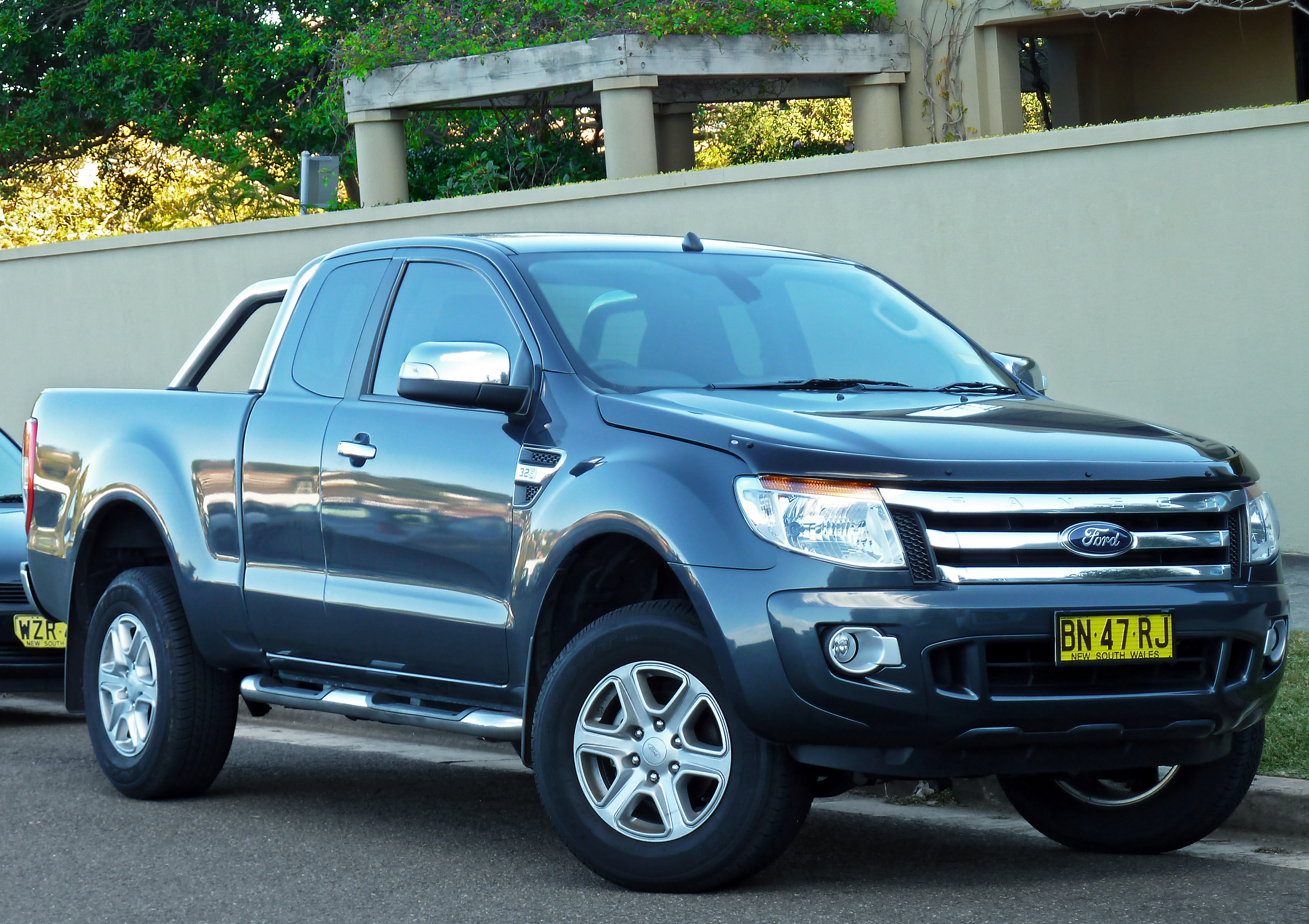 2011 Ford Ranger (PX) XLT High Rider 4-door Super Cab utility. Photographed in Double Bay, New South Wales, Australia.